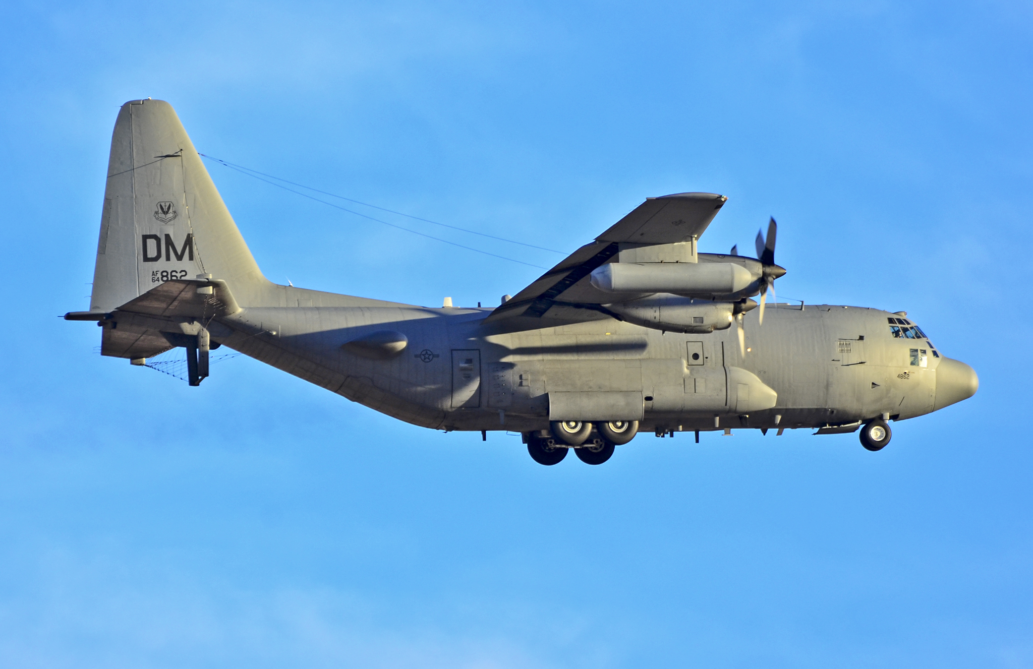 TDelCoro Red Flag 14 January 27, 2013